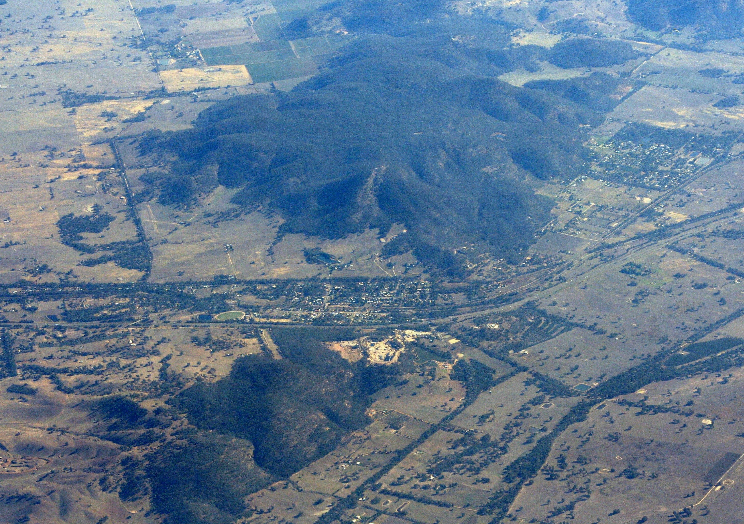 Aerial view of Glenrowan, Victoria